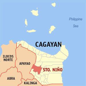 Map of Cagayan showing the location of Santo Niño